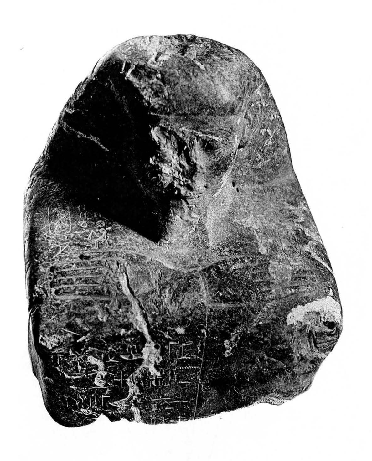 Broken block statue of Tjanhesret, priest in Thebes and Hermopolis, bearing the cartouches of the local ruler Djehutyemhat. Limestone (H. 32 cm), found in 1909 in Luxor. Reign of Djehutyemhat, c. 725-710 BCE, time of the 25th dynasty, Third intermediate period. Cairo, Egyptian Museum CG 42212.